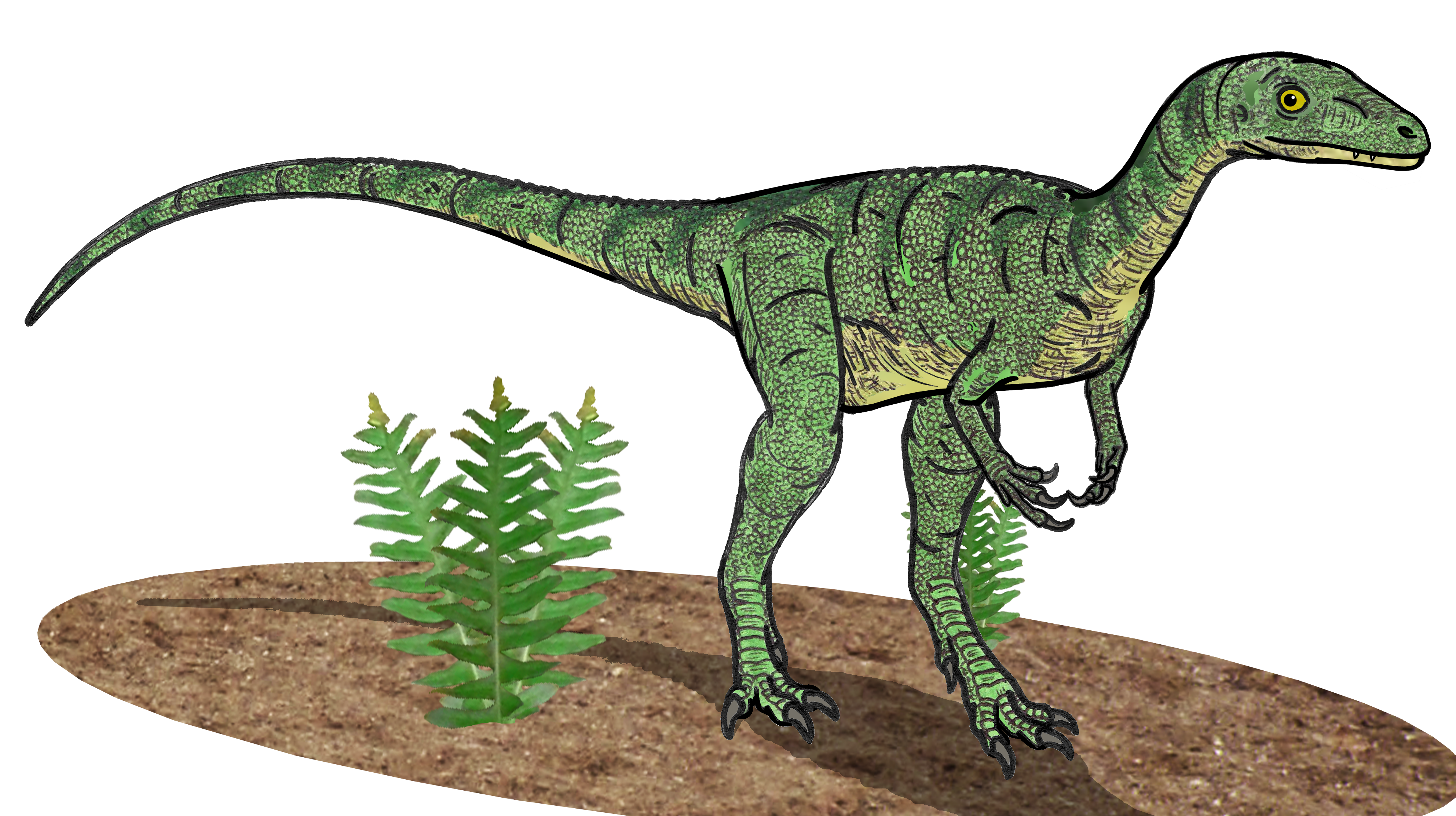 Restoration of the small Triassic dinosaur Eoraptor lunensis from Patagonia.[1] References ↑ Sereno P, Forster C.A, Rogers R.R & Monetta A.M (1993), "Primitive dinosaur skeleton from Argentina and the early evolution of Dinosauria", Nature 361(6407): p. 64-66.